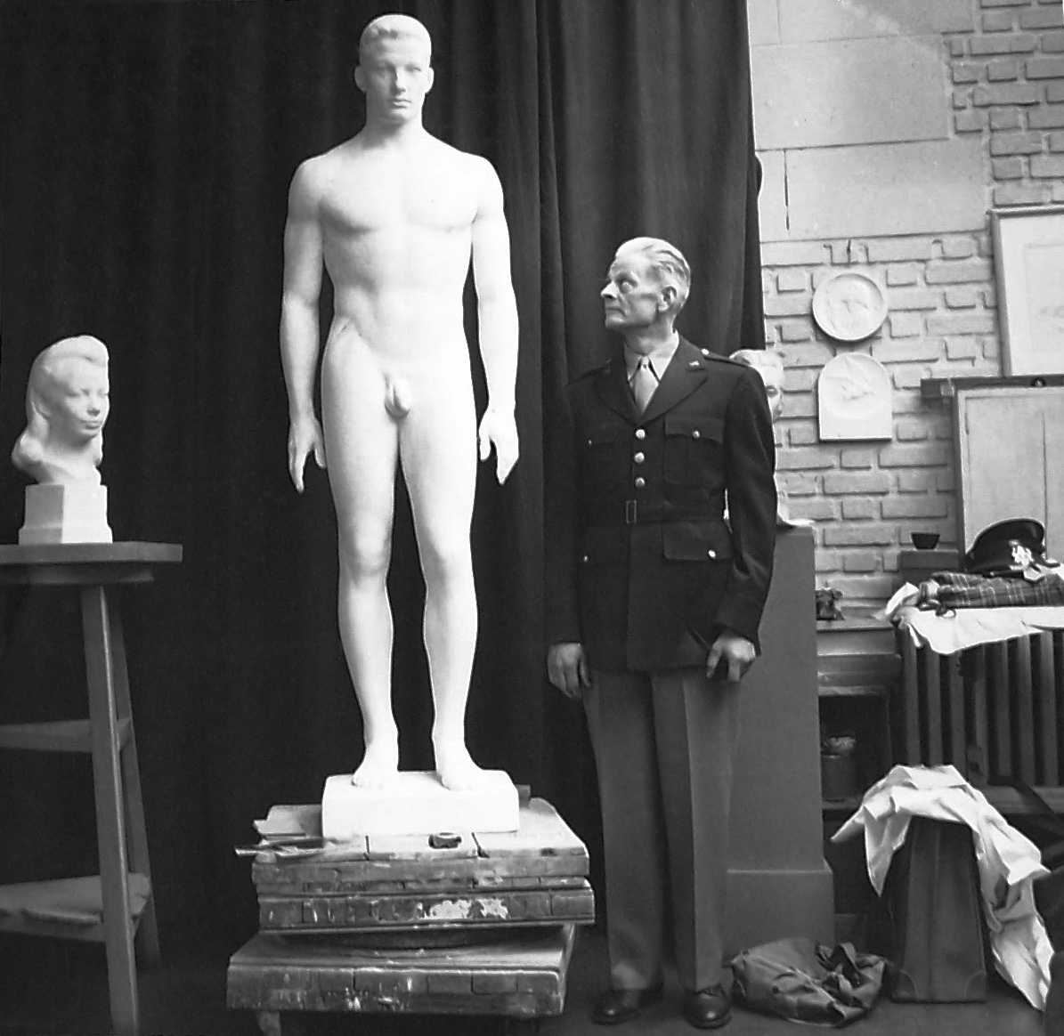 Cecil Howard posing in US army uniform in his New York studio in 1944, before his departure for London with the OSS. He stands by his daughter Line's portrait and "American Youth" also entitled "The Sacrifice", his sculpture symbolysing american army entry into war.